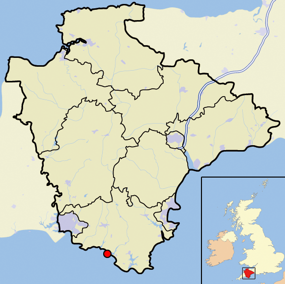 Location of Burgh Island shown within Devon and the United Kingdom.